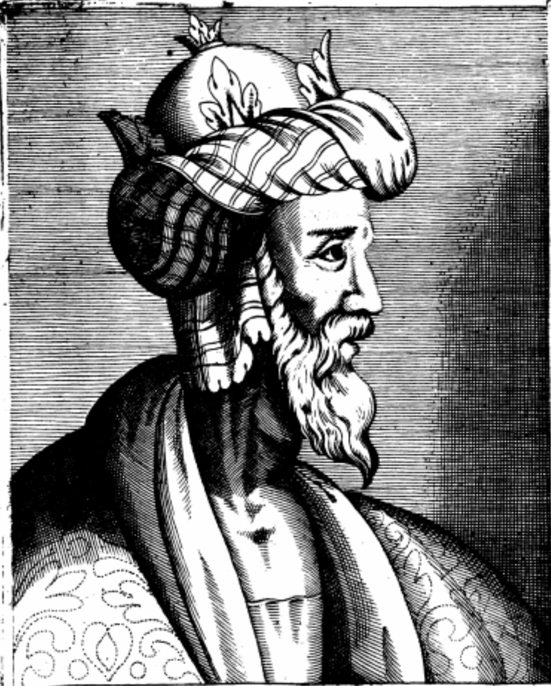 Osman I